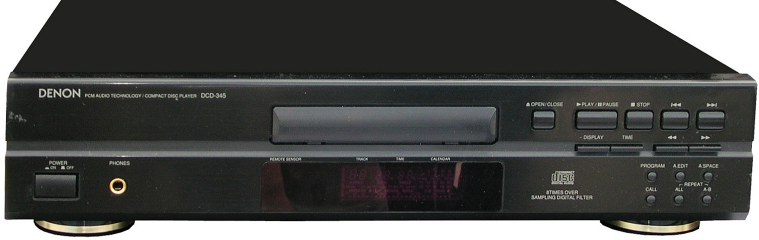 Denon DCD 345 CD-player